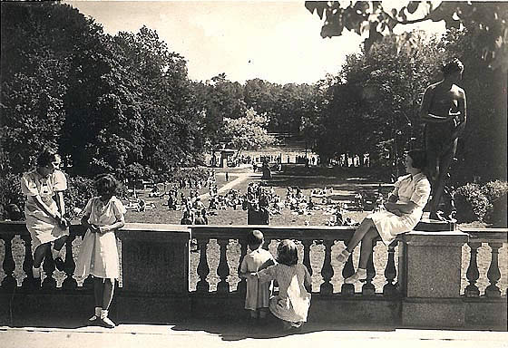 Pushkin. In the Catherine Park. Postcard.